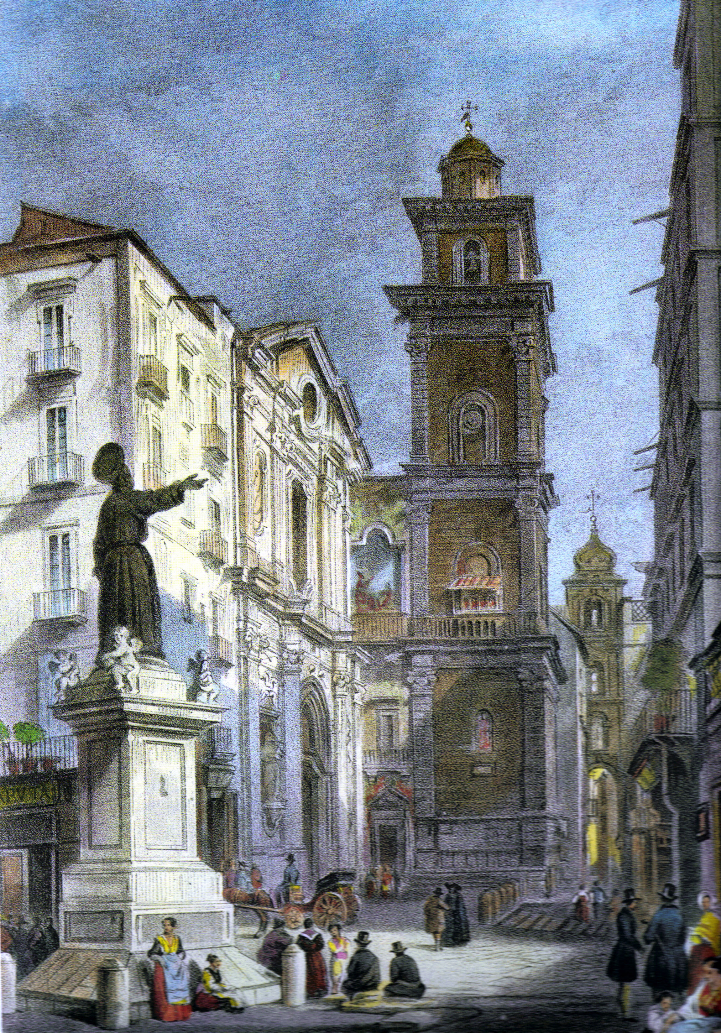 Piazza San Gaetano in Naples, with the church of San Lorenzo Maggiore, around 1845. Drawing by Vianelli, lithographing by F.A.J.